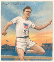 Charles Bacon 1910 Mecca Cigarettes Champion Athlete and Prize Fighter Series trading card.